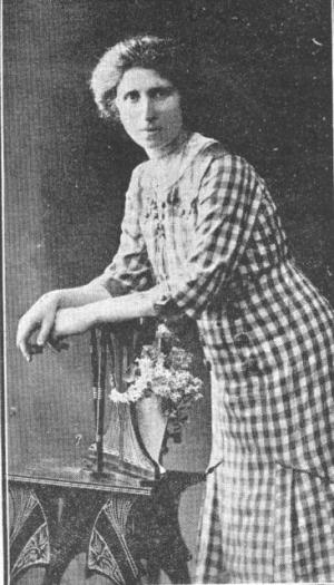 Arshakuhi Teodik (Tchezvechian) (1875 - 1922) -- Armenian author and philologist